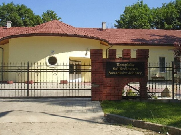 Buildings_in_Sanok